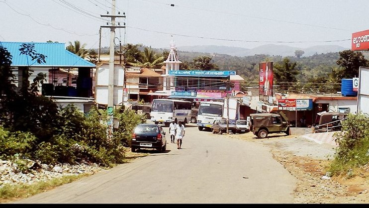 The image shown above is the entrance of Thoprakudy city.